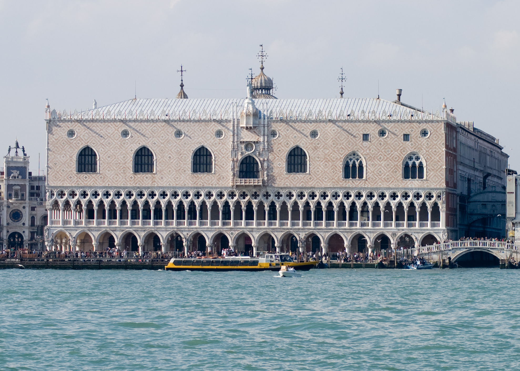 This is a photograph of the Doge's Palace in Venice.